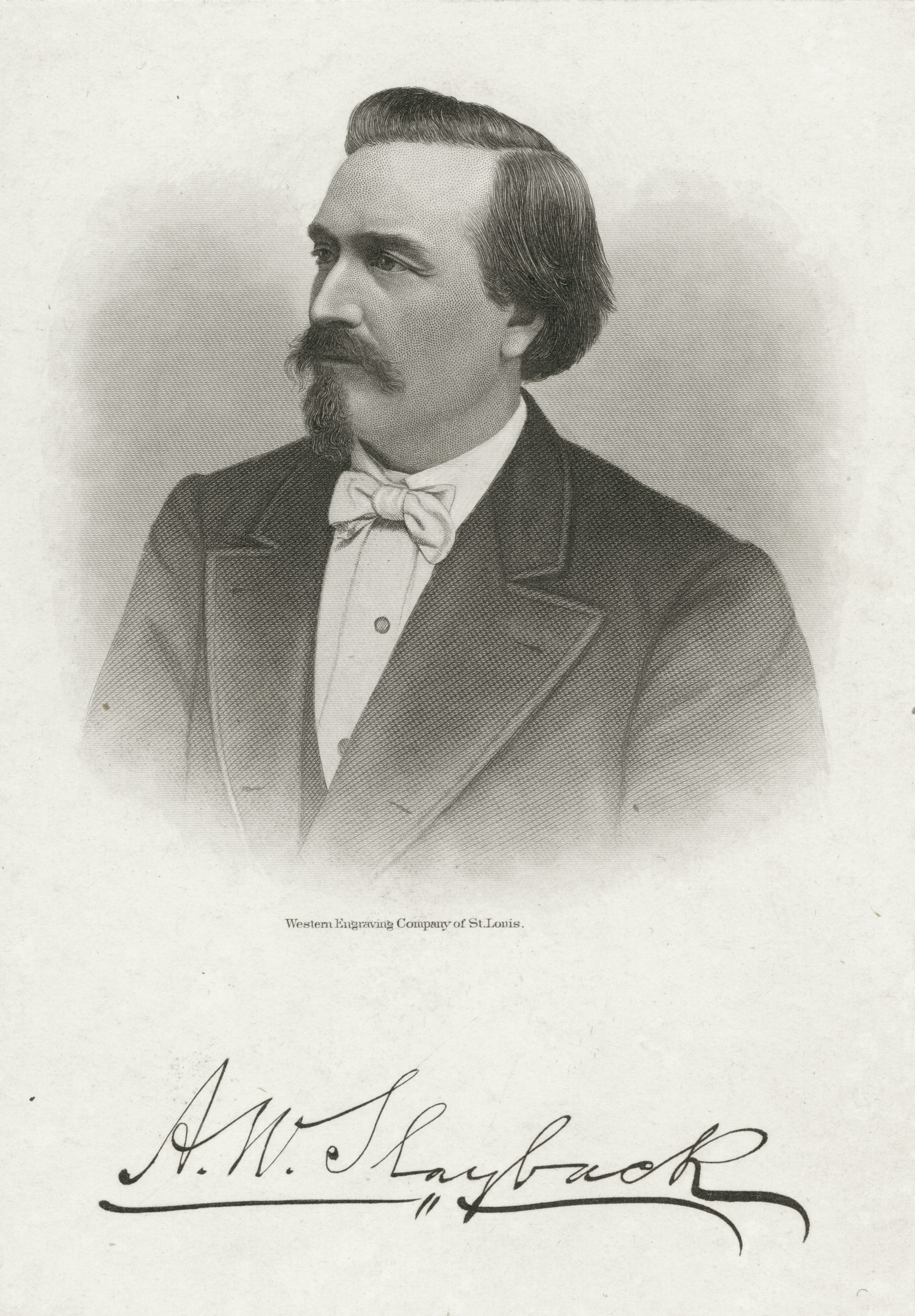 Title: Alonzo W. Slayback.